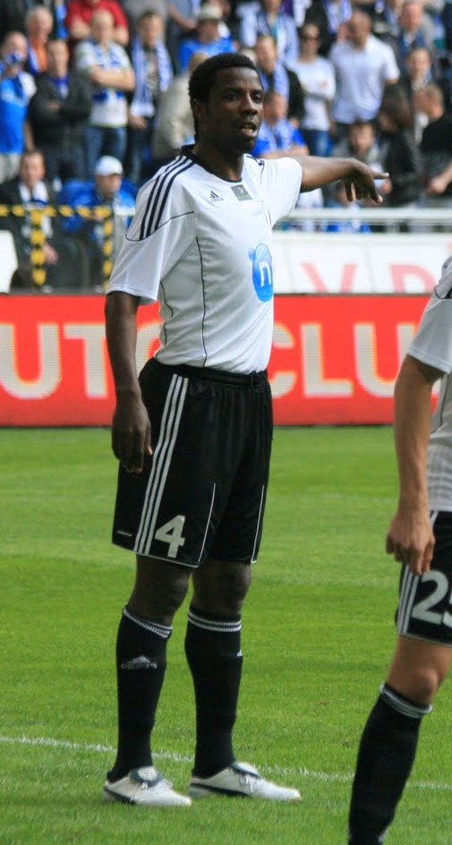 Dickson Choto, association football player from Zimbabwe